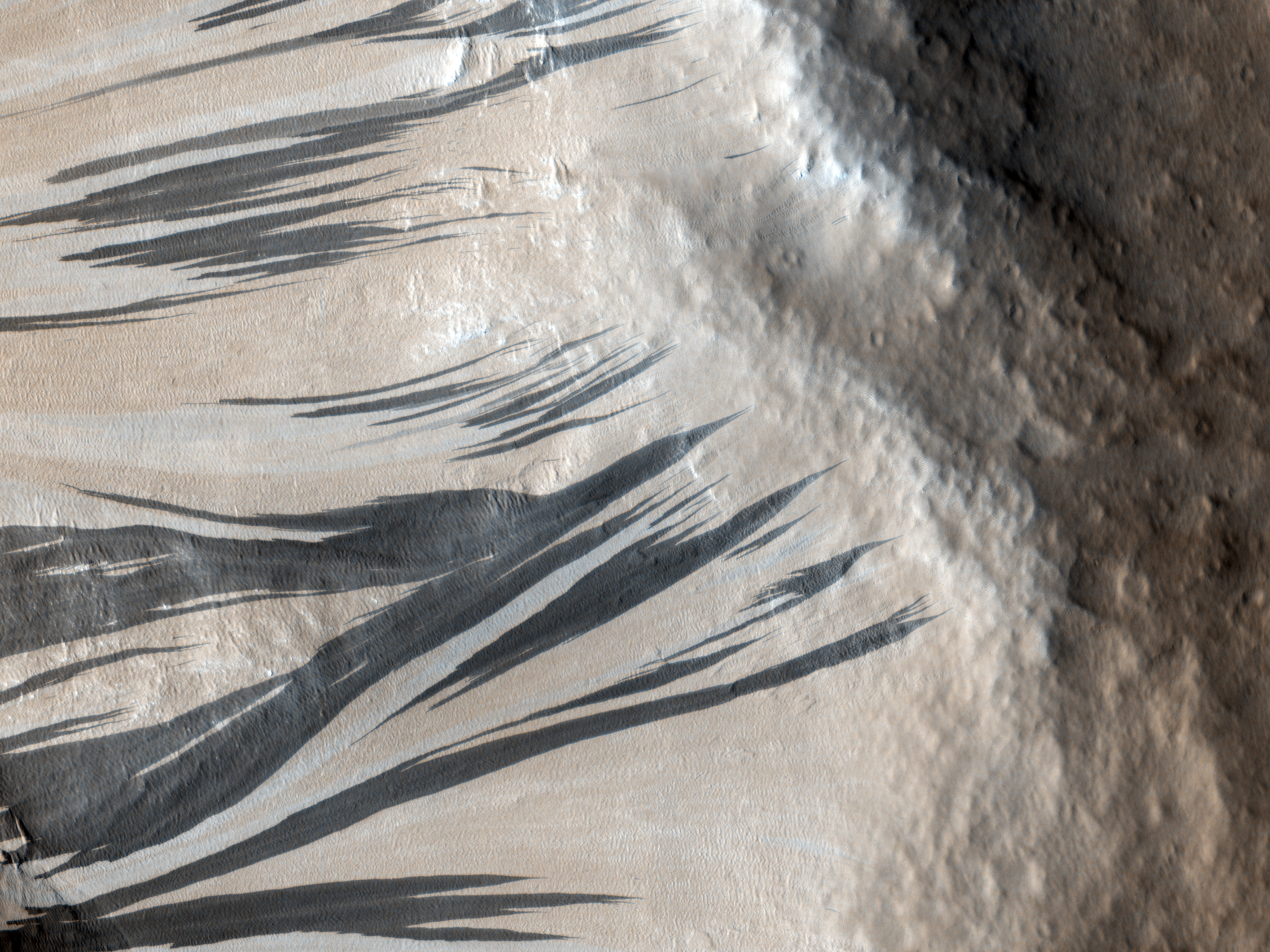 What creates these picturesque dark streaks on Mars? No one knows for sure. A leading hypothesis is that streaks like these are caused by fine grained sand sliding down the banks of troughs and craters. Pictured above, dark sand appears to have flowed hundreds of meters down the slopes of Acheron Fossae. The sand appears to flow like a liquid around boulders, and, for some reason, lightens significantly over time. This sand flow process is one of several which can rapidly change the surface of Mars, with other processes including dust devils, dust storms, and the freezing and melting of areas of ice. Acheron Fossae is a 700 kilometre long trough in the Diacria quadrangle of Mars.